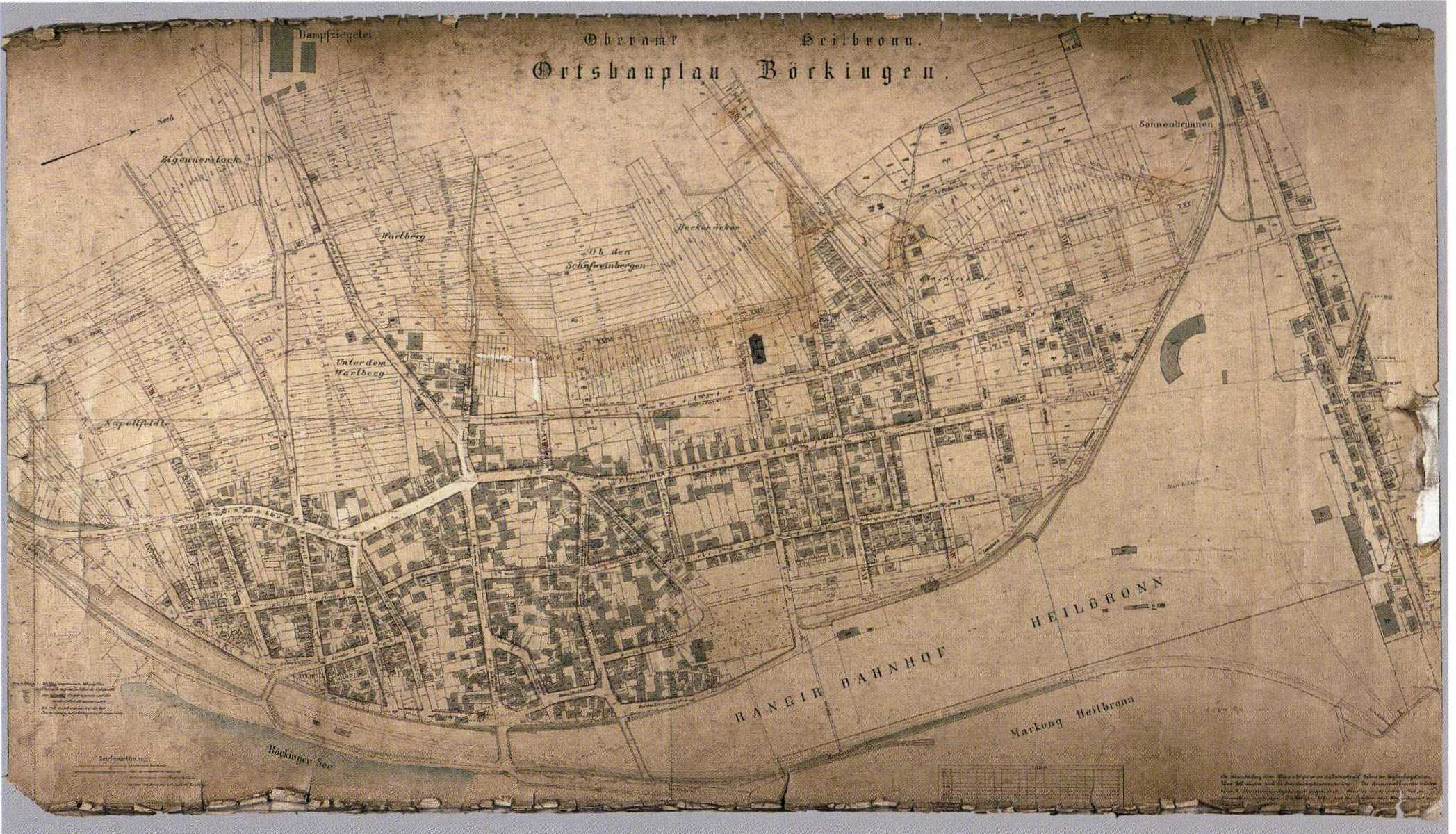 Gewesteter Ortsbauplan von Böckingen 1901.jpg